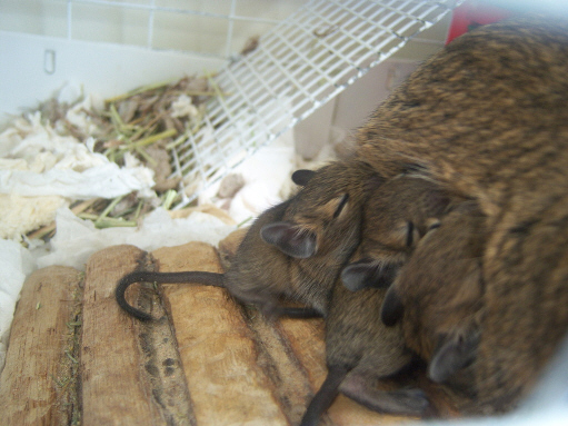 Young degus nursing. Picture taken in Illinois, United States of America.